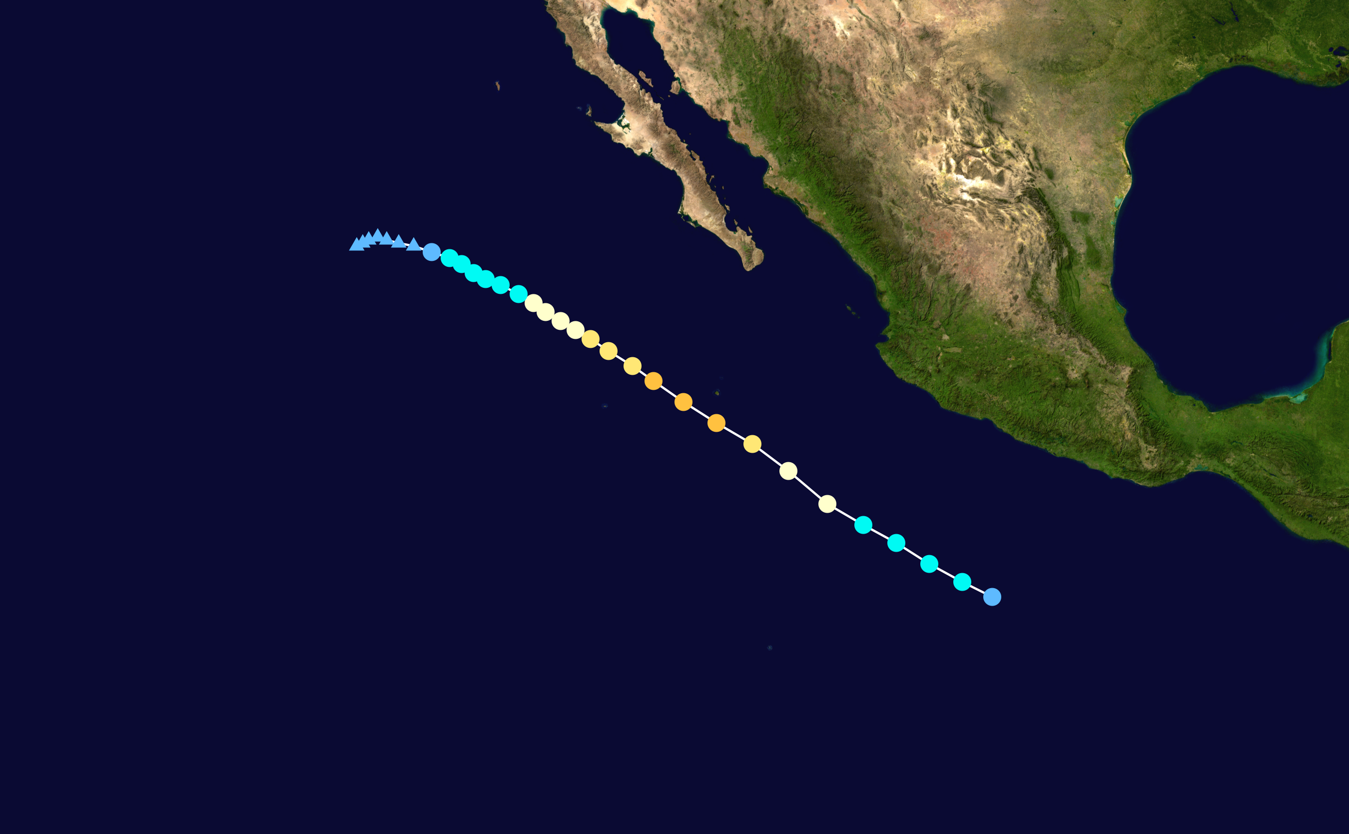 Track map of Hurricane Ileana of the 2006 Pacific hurricane season. The points show the location of the storm at 6-hour intervals. The colour represents the storm's maximum sustained wind speeds as classified in the Saffir–Simpson scale (see below), and the shape of the data points represent the nature of the storm, according to the legend below. Saffir–Simpson scale Tropical depression≤38 mph≤62 km/h Category 3111–129 mph178–208 km/h Tropical storm39–73 mph63–118 km/h Category 4130–156 mph209–251 km/h Category 174–95 mph119–153 km/h Category 5≥157 mph≥252 km/h Category 296–110 mph154–177 km/h Unknown Storm type Tropical cyclone Subtropical cyclone Extratropical cyclone / Remnant low / Tropical disturbance / Monsoon depression